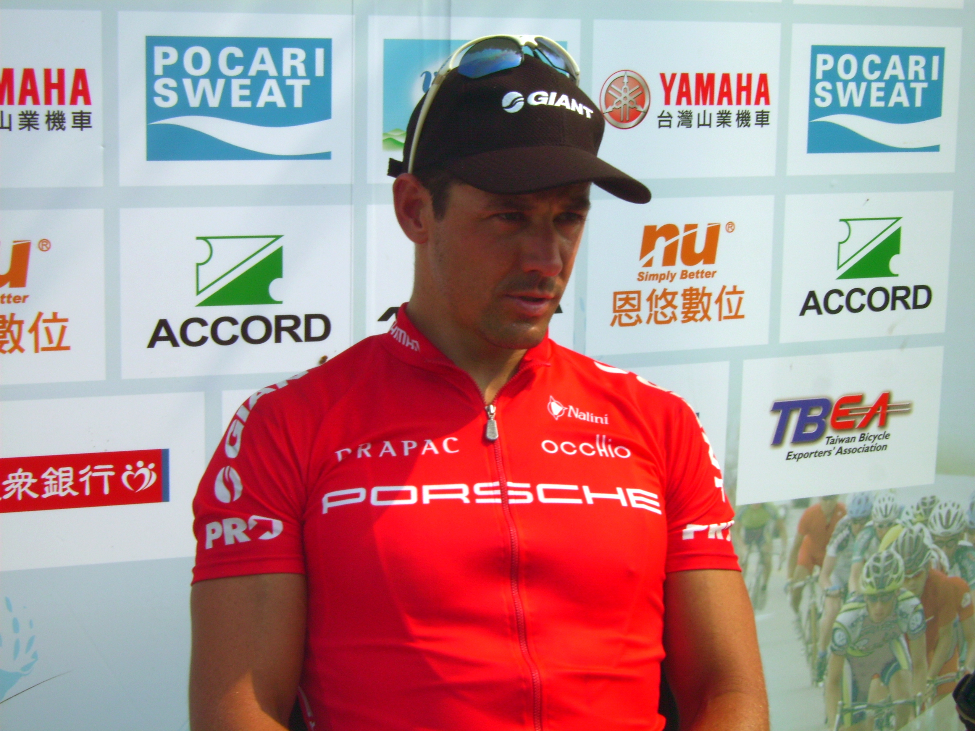 A famous Australian cyclist Robert McLachlan won the 6th Stage of 2007 Tour de Taiwan.